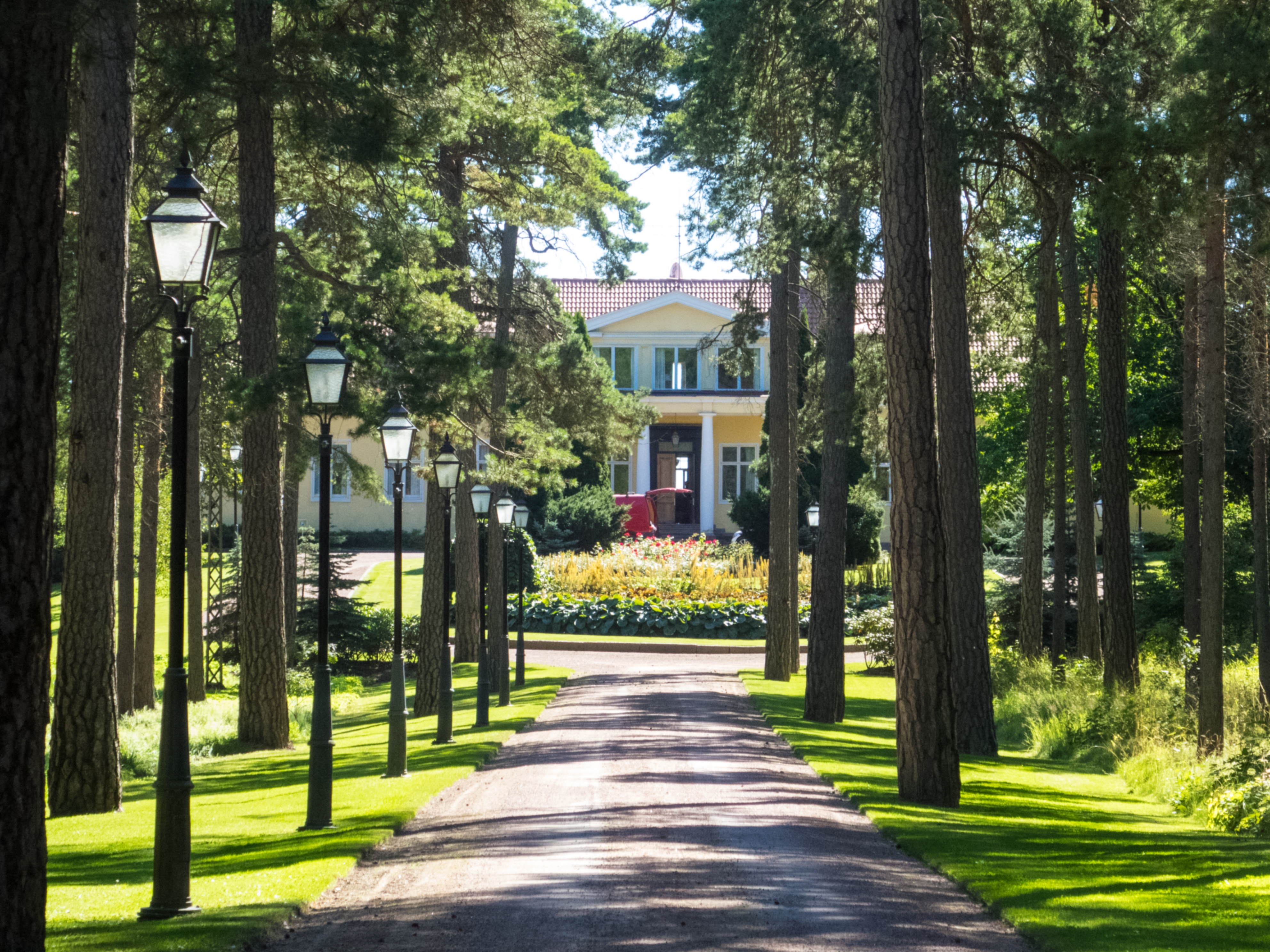 Furuvik manor in central Pargas (Parainen), southwestern Finland